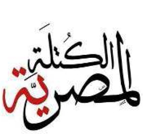 Kotla